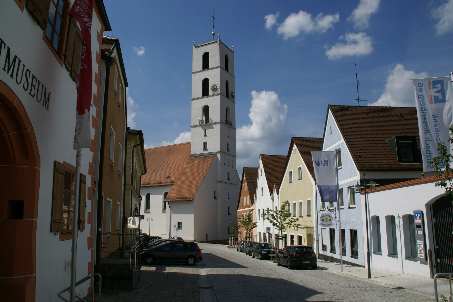 Christ Church at Neustadt Street in Sulzbach-Rosenheim (Sulzbach-Rosenberg)